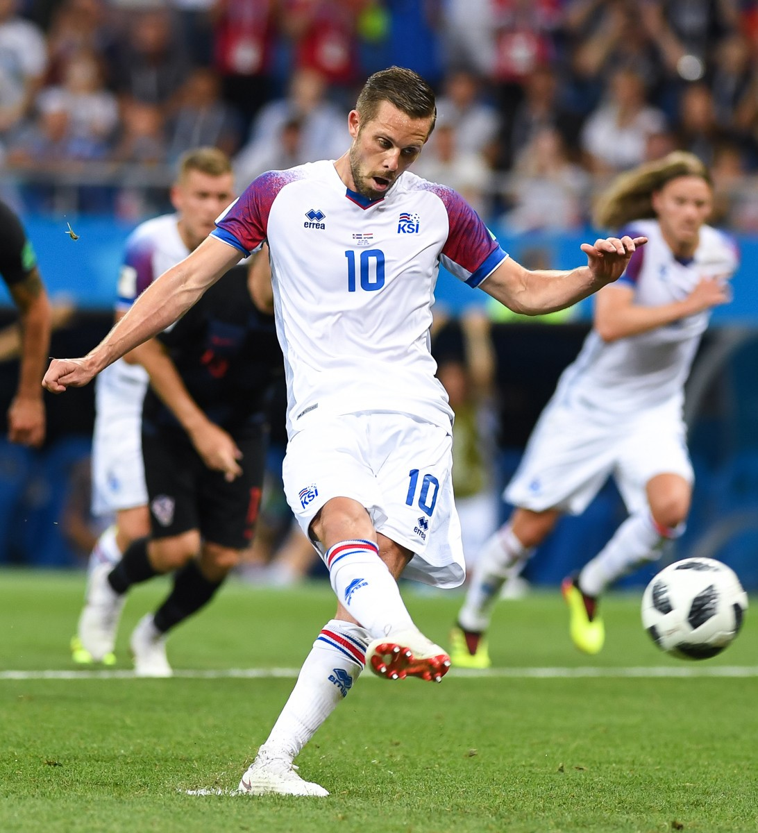 Gylfi Sigurðsson